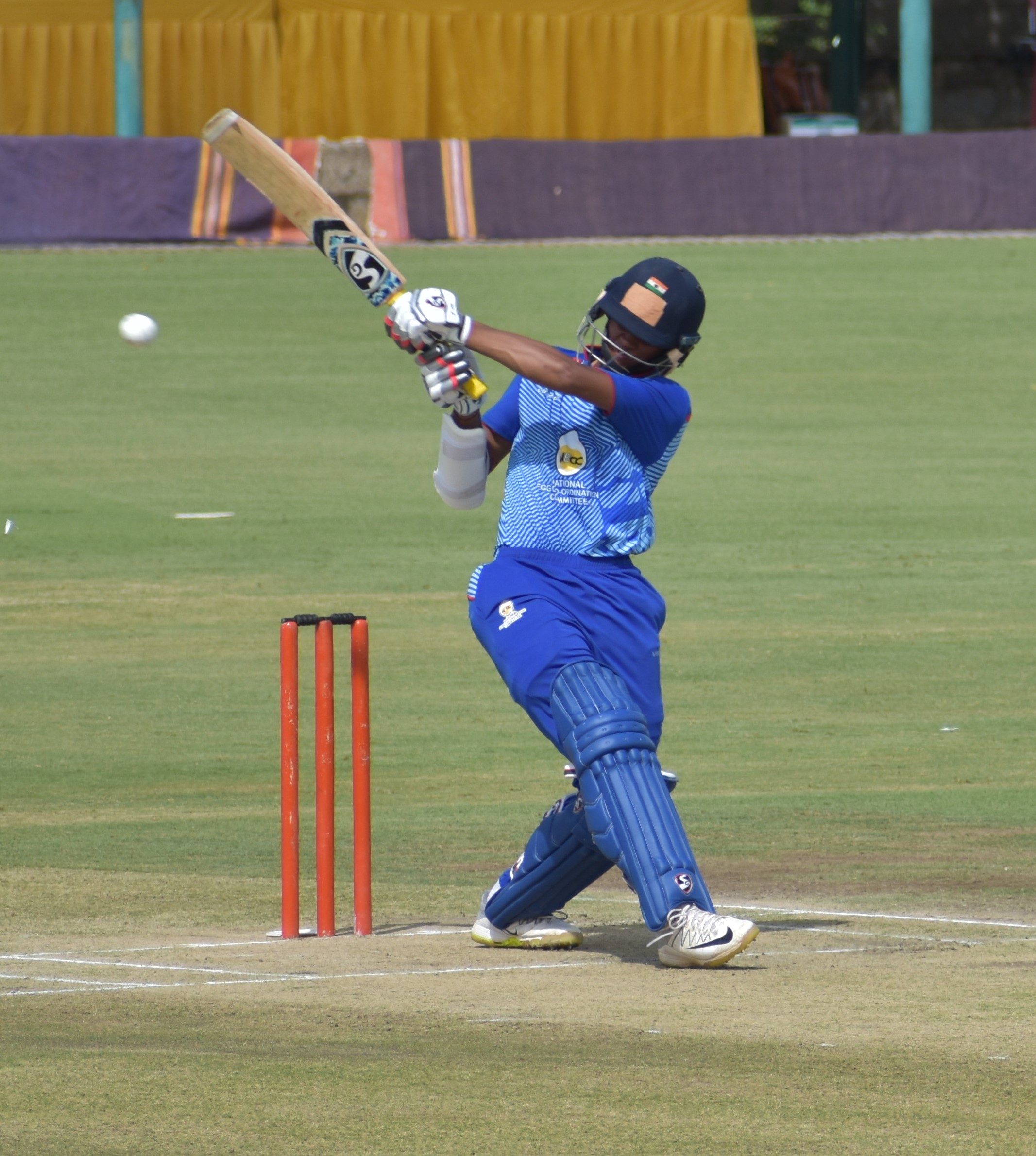 Indian cricketer Yashasvi Jaiswal during the 2019-20 Vijay Hazare Trophy in Alur, Bangalore.